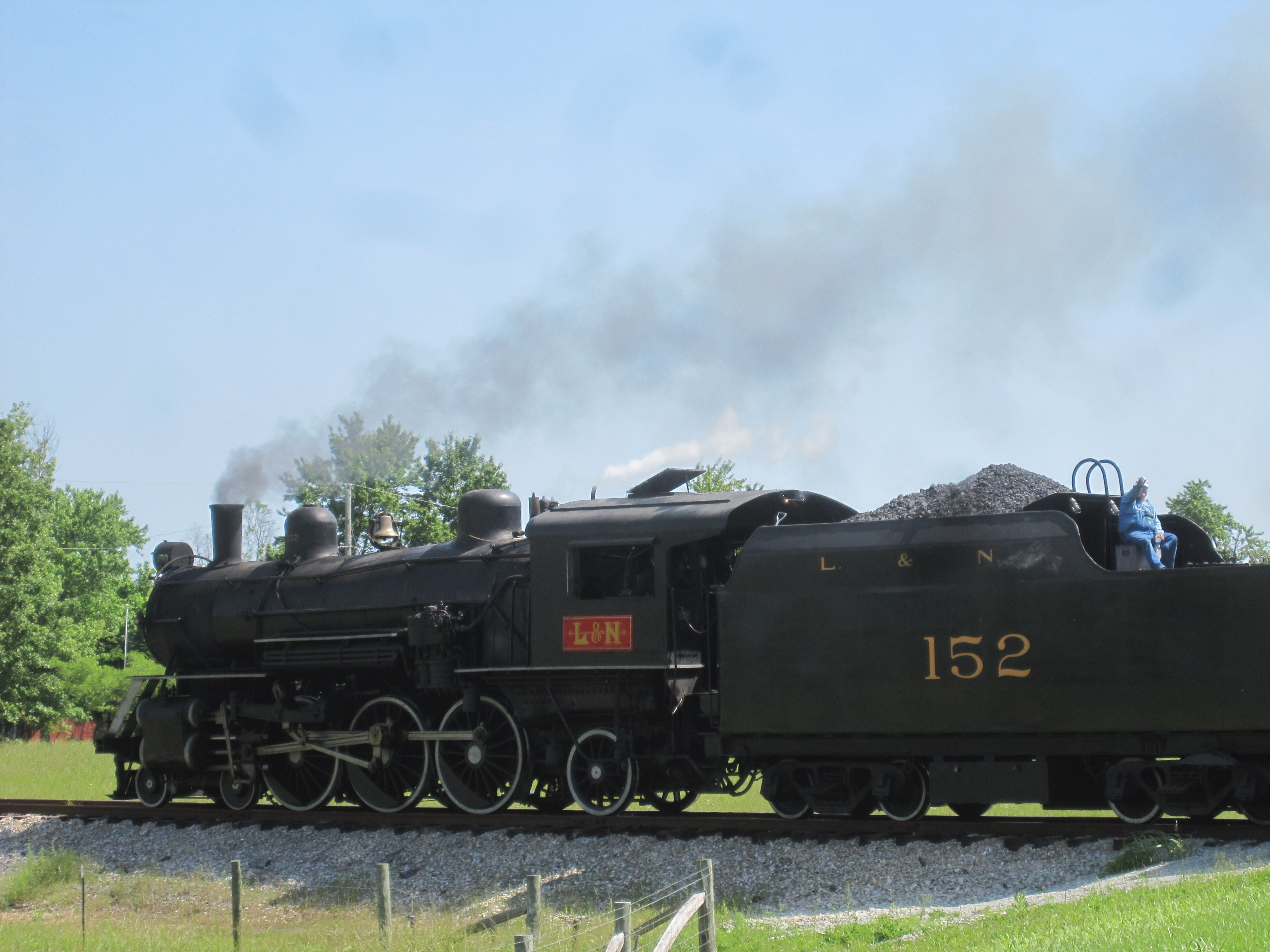 L&N 152 at Holton Valley kentucky.